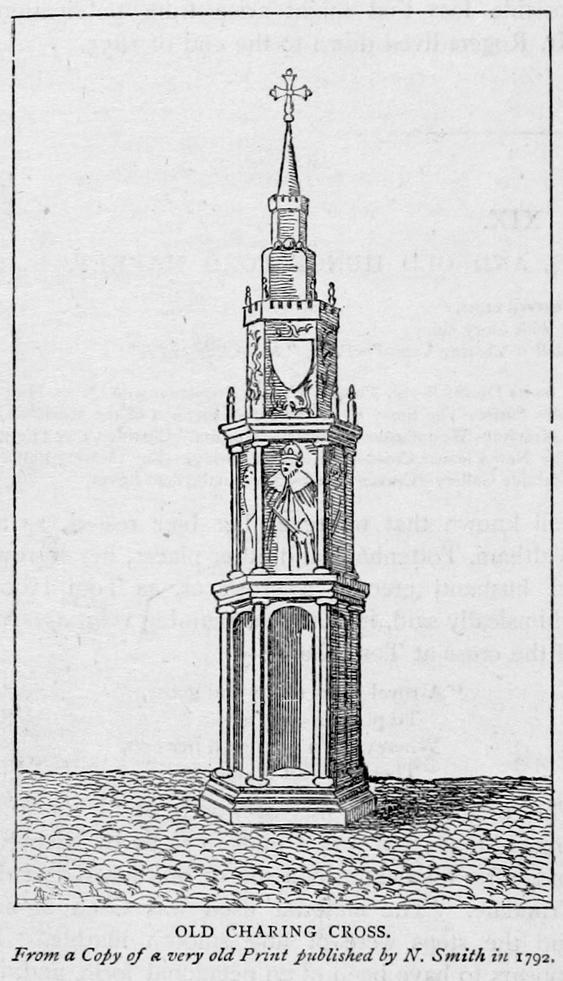 Image extracted from page 124 of volume 3 of "Old and New London; illustrated. A narrative of its history, its people, and its places. [vol. 1, 2,] by Walter Thornbury (vol. 3-6, by E. Walford)"', by THORNBURY, George Walter.. Original held and digitised by the British Library. Copied Note: The colours, contrast and appearance of these illustrations are unlikely to be true to life. They are derived from scanned images that have been enhanced for machine interpretation and have been altered from their originals.